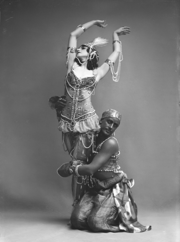 Michel Fokine and Vera Fokina as the Golden Slave and Zobeïde in the 1910 Ballets Russes production Scheherazade.